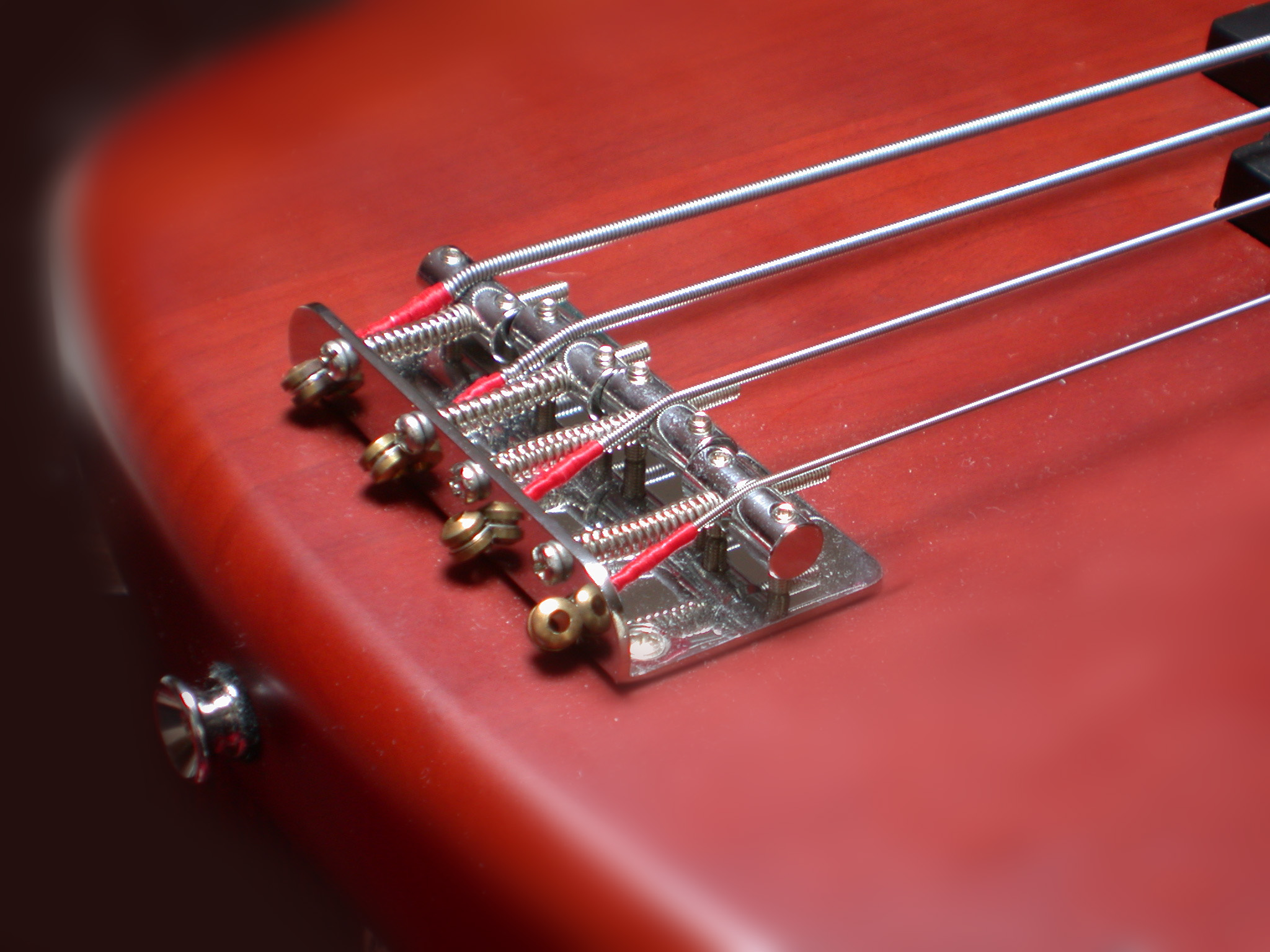 Bass Guitar body - Yamaha modell (2002)